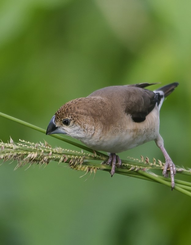 this species has been recorded in monsoon of 2014 at kolkata outskirts